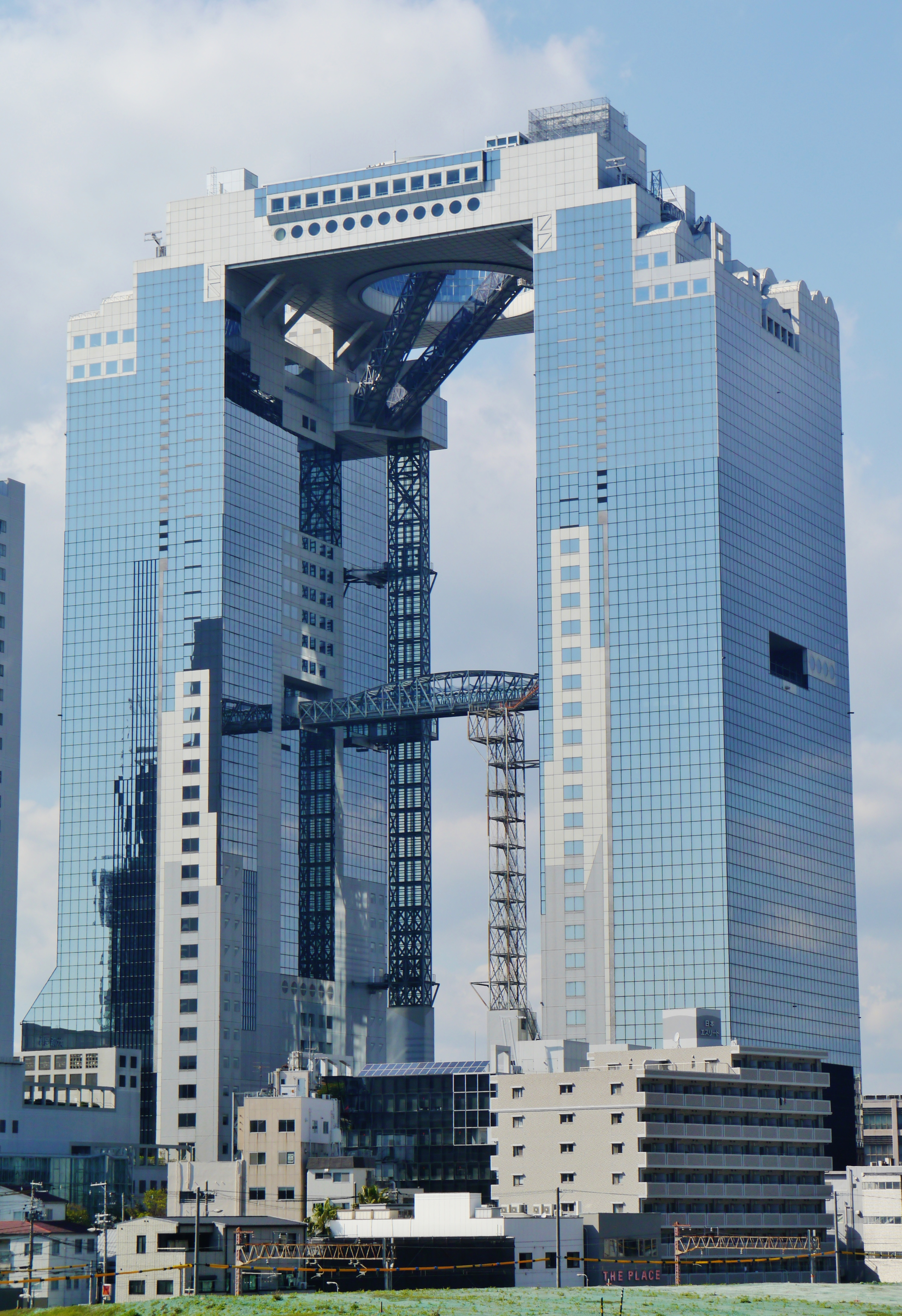 Umeda Sky Building, Osaka, Osaka Prefecture, Kinki Region, Japan